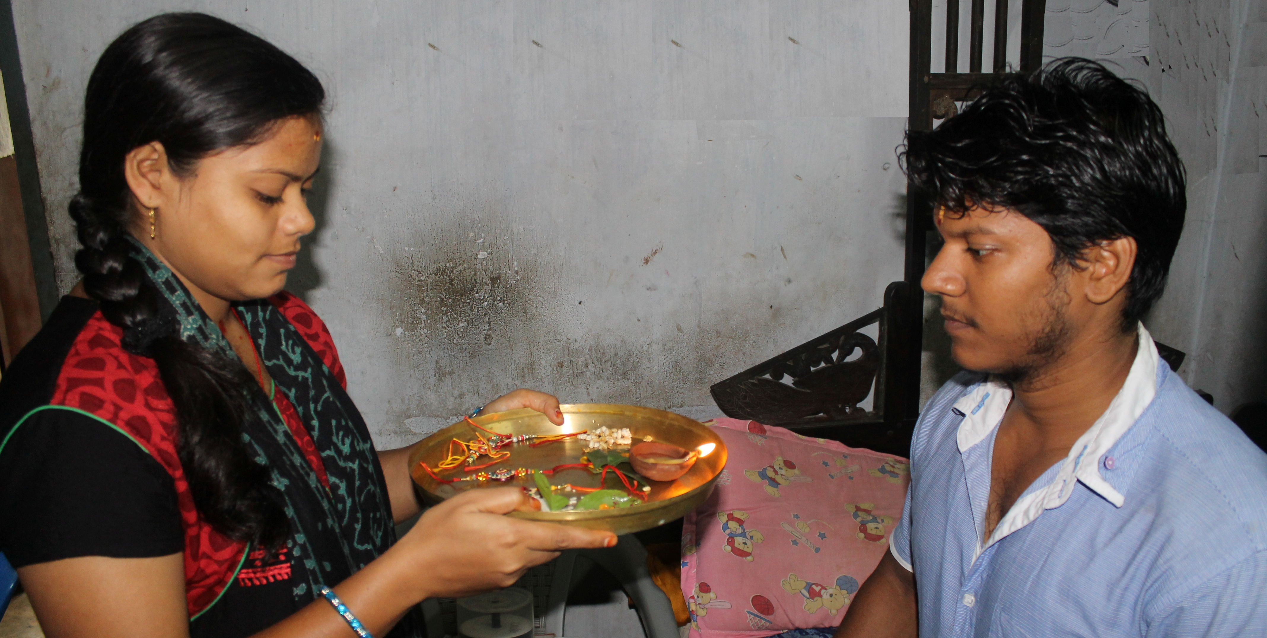 Rakhya Bandhana...